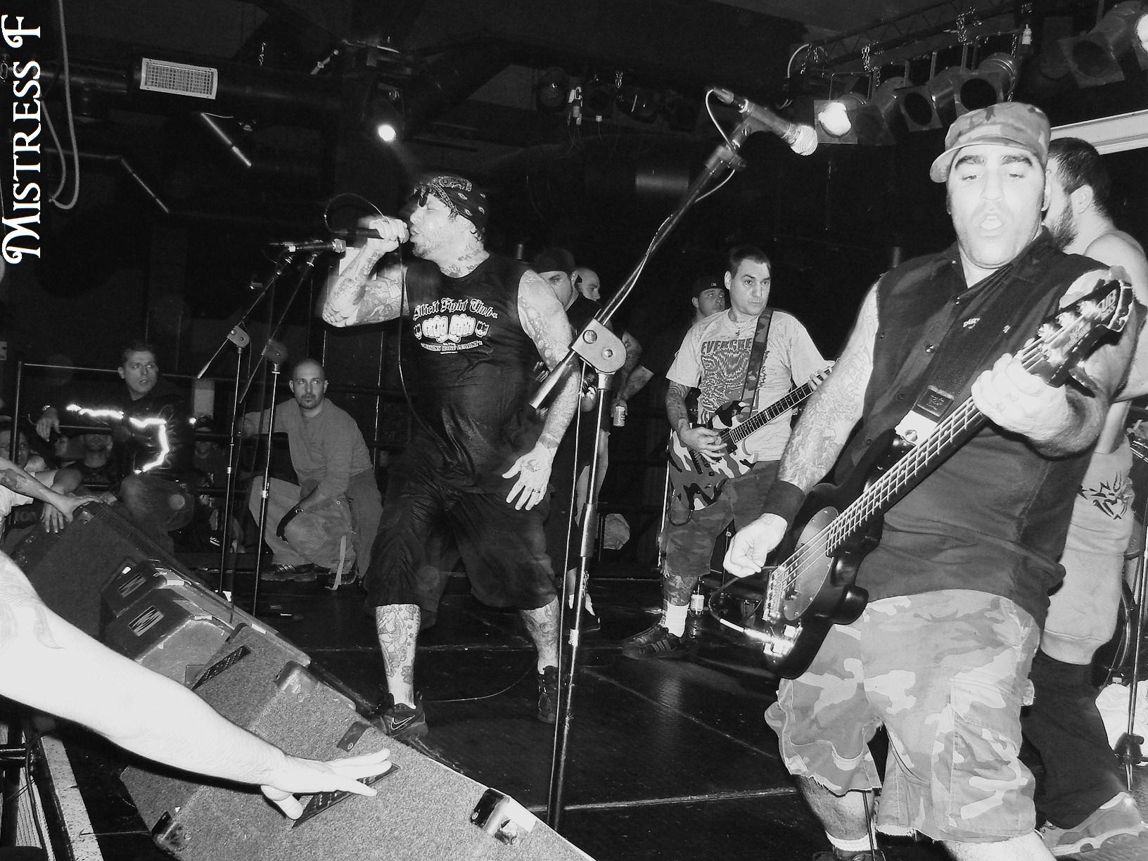 agnostic front live in rome, 23 nov 2007, alpheus.